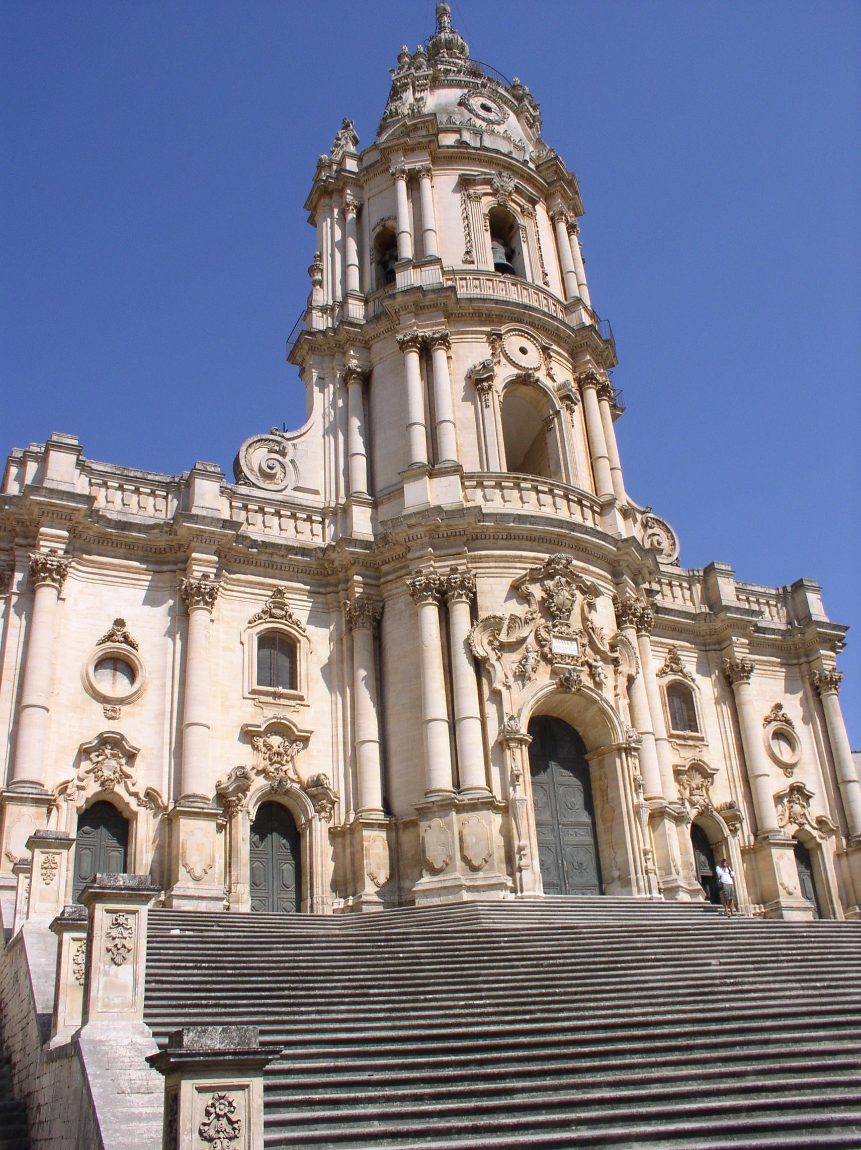 St. George Cathedral at Modica, Italy (by G. Melfi).